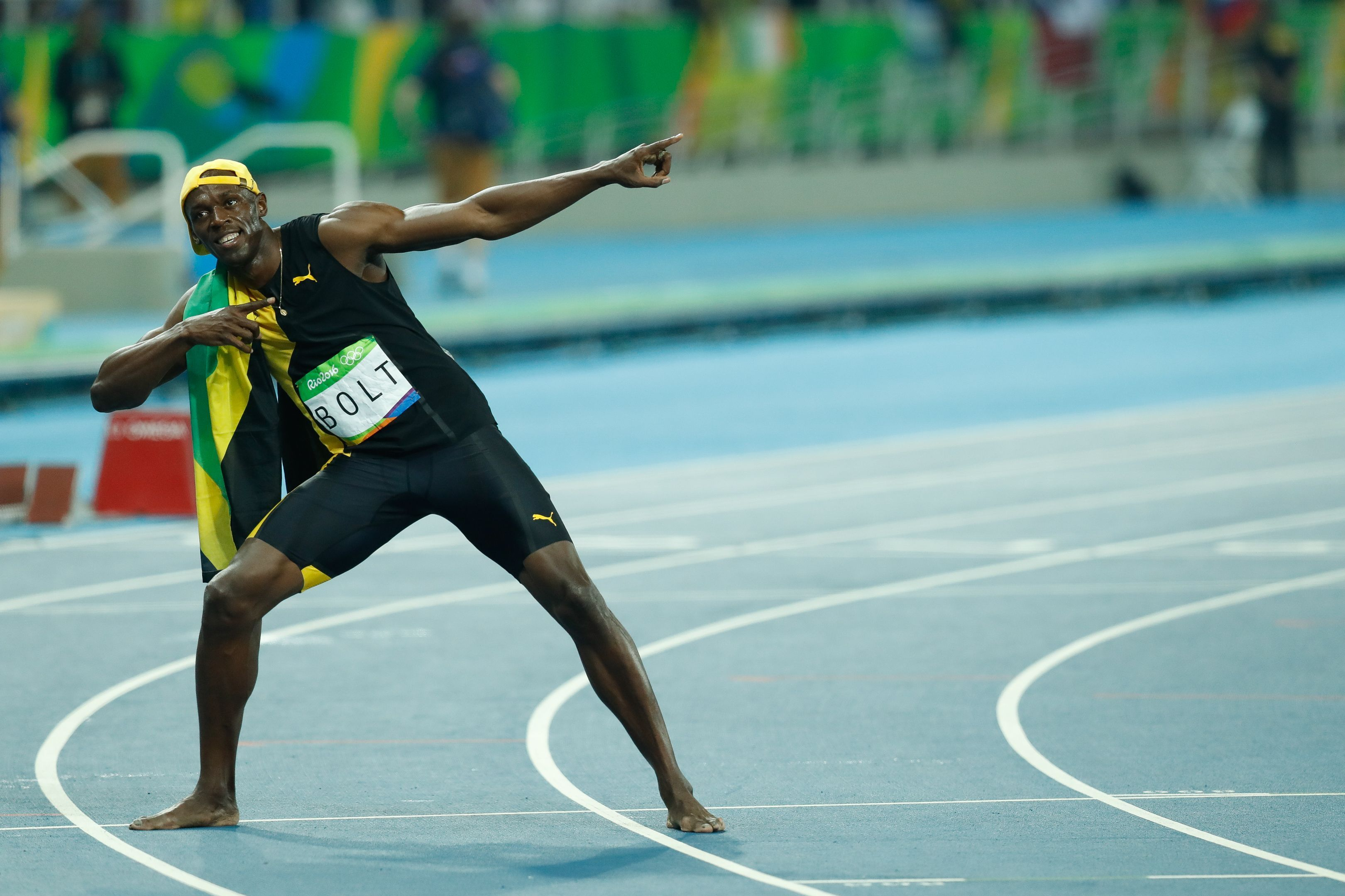 Usain Bolt after wins 100-meter dash in 2016 Summer Olympics in Rio de Janeiro, Brazil on 14 August 2016